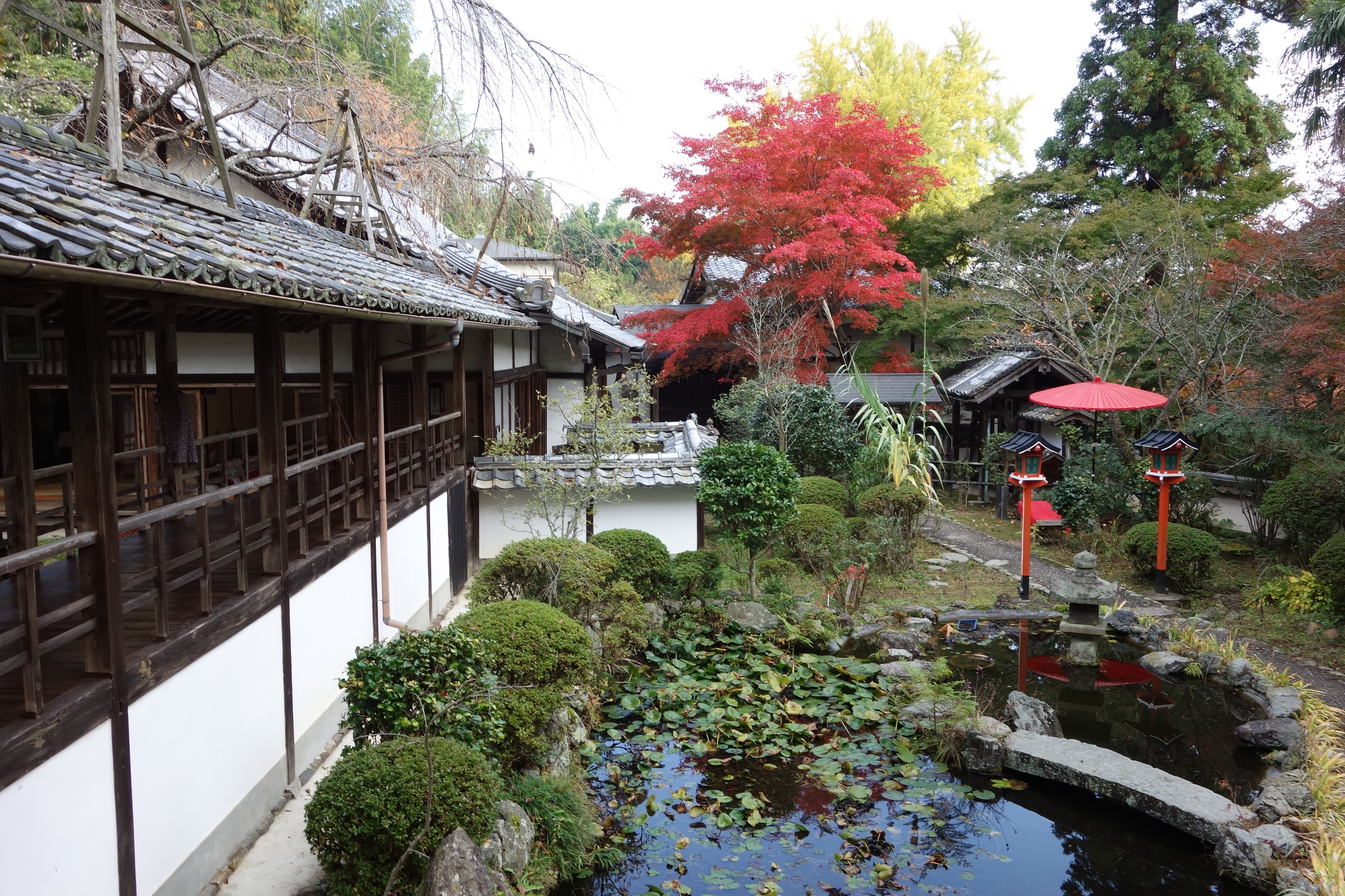 Jurinji temple, in autumn, Kyoto, Japan